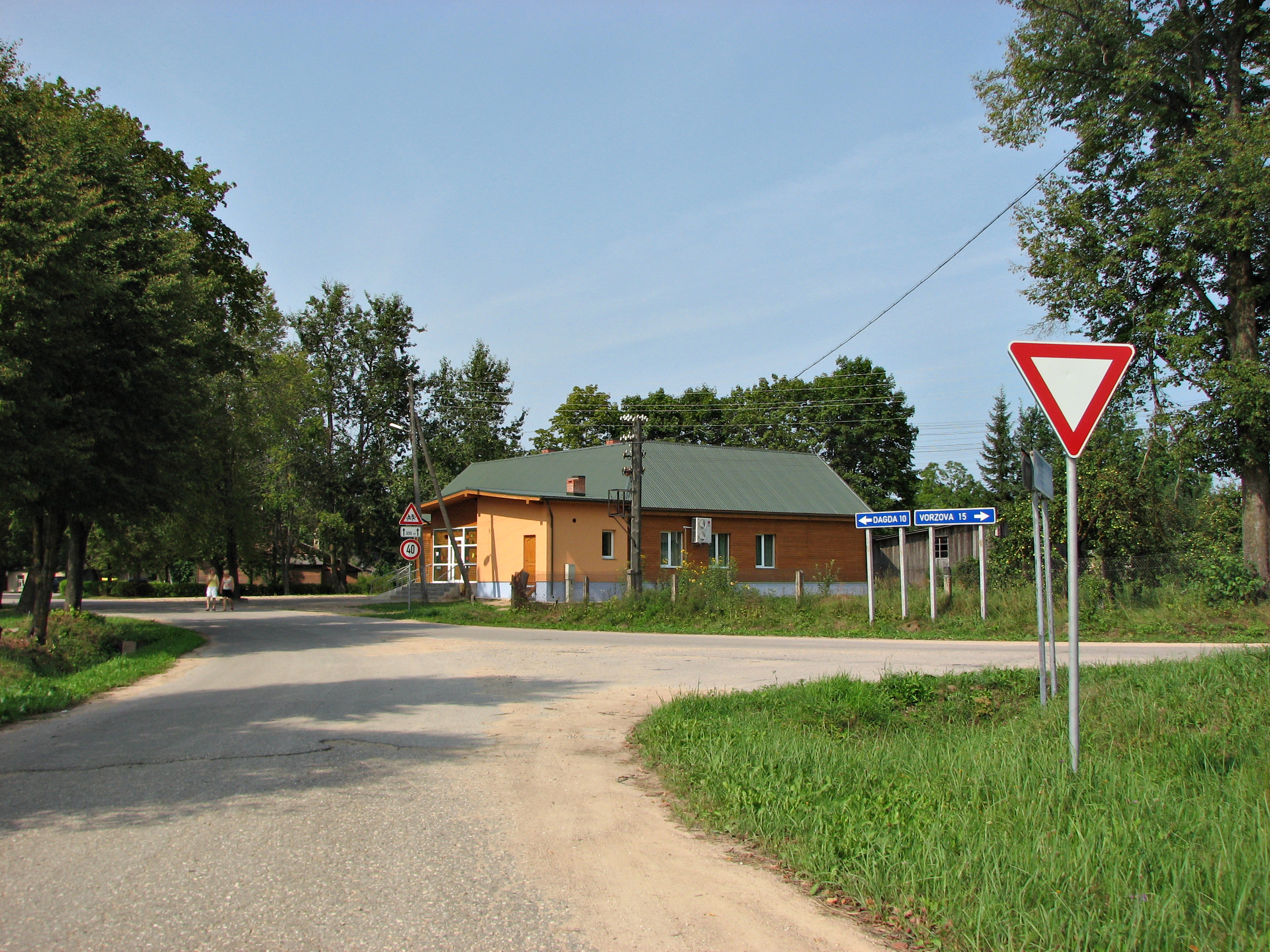 Crossroads in Asune